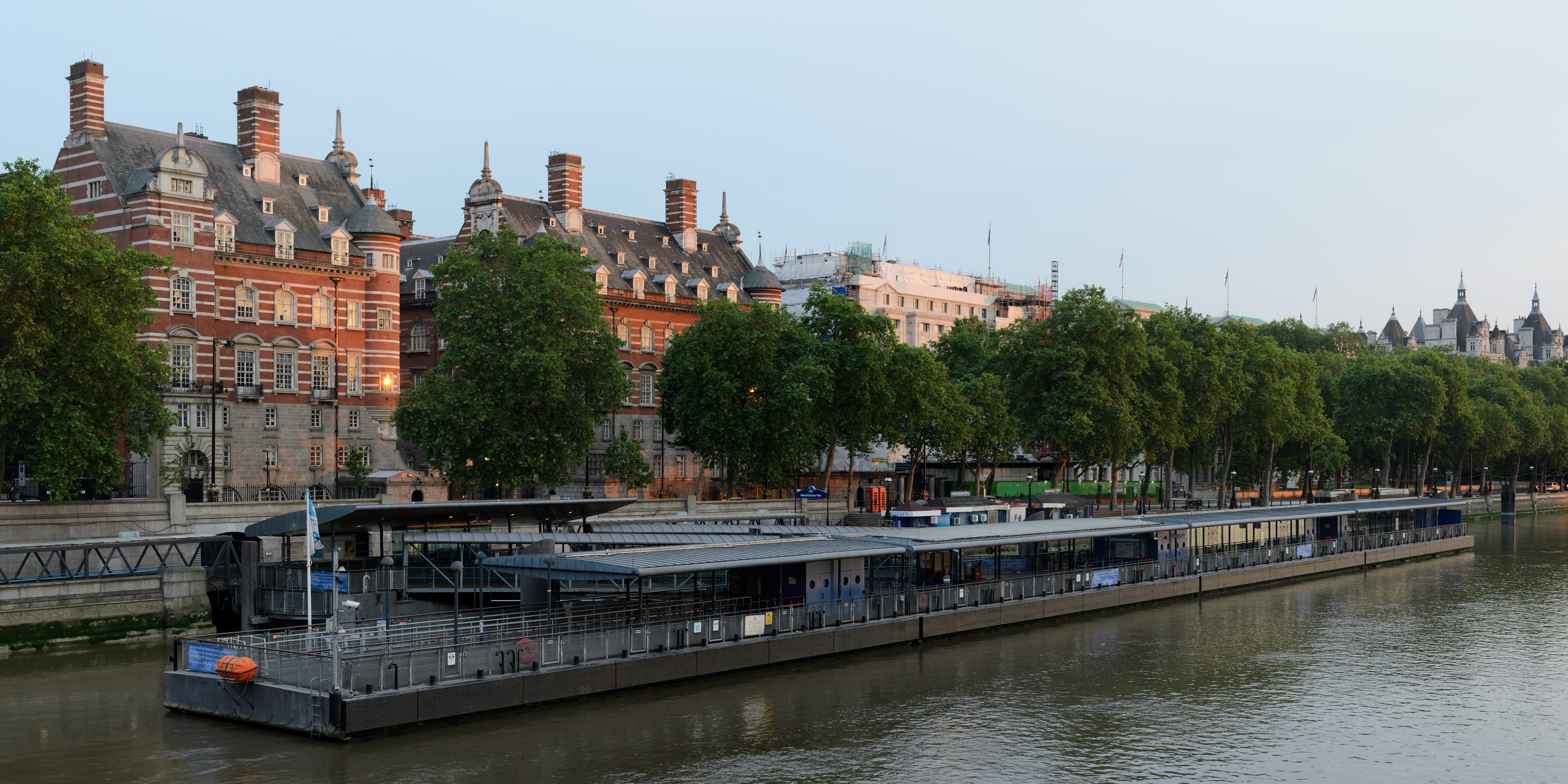 Three-segment panorama of Westminster from Westminster Bridge, London.